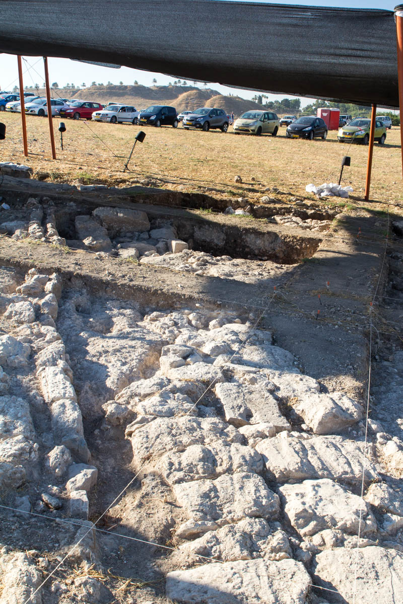 Excavation of Legio VI Ferrata camp near Megiddo, Israel